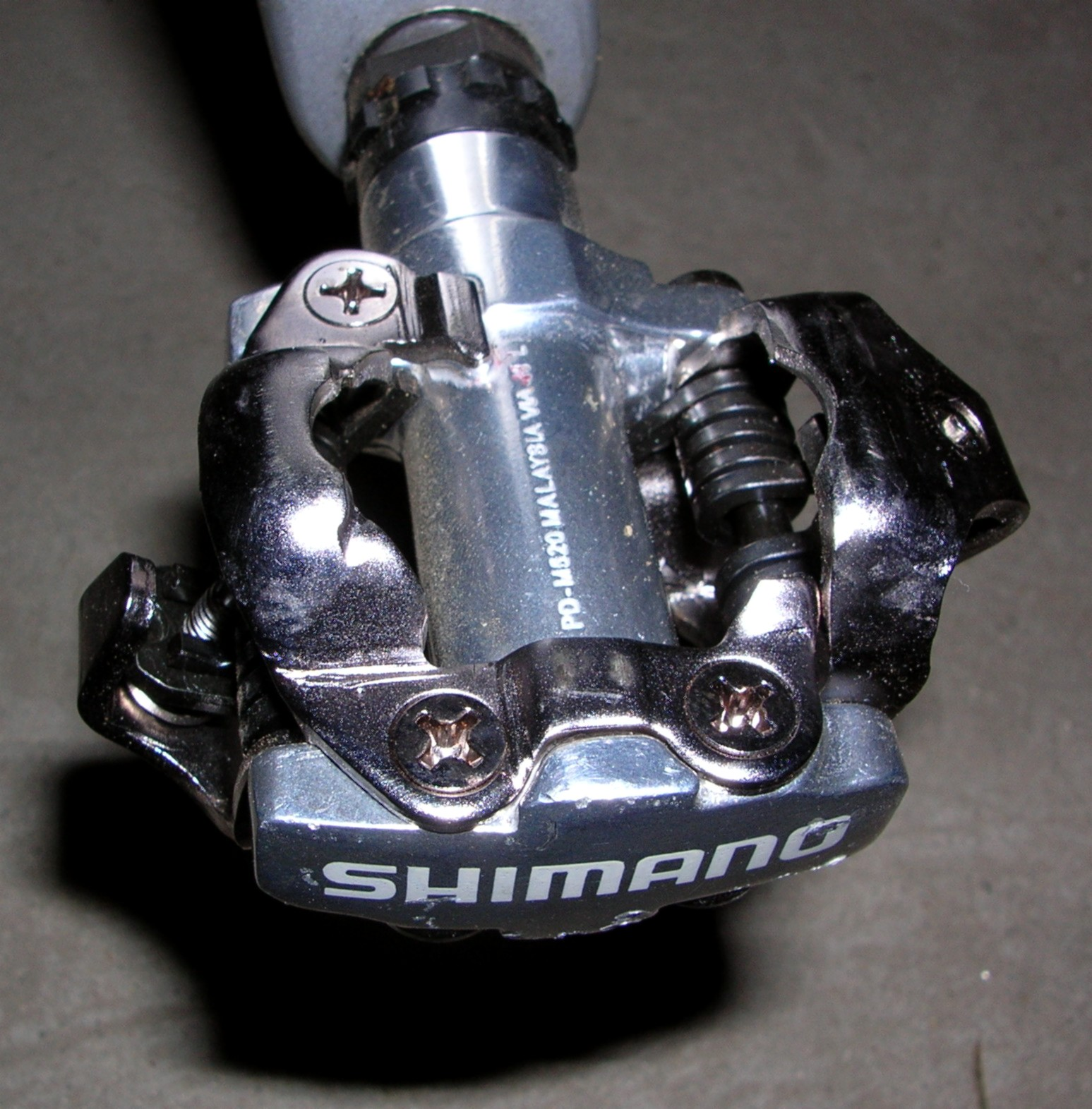 Clipless Pedal - Shimano Pedaling Dynamics (SPD)M520